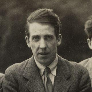 Walter J. Turner Extracted from Igor Vinogradoff; Gilbert Spencer; Walter James Redfern Turner; Mark Gertler, by Lady Ottoline Morrell (died 1938).